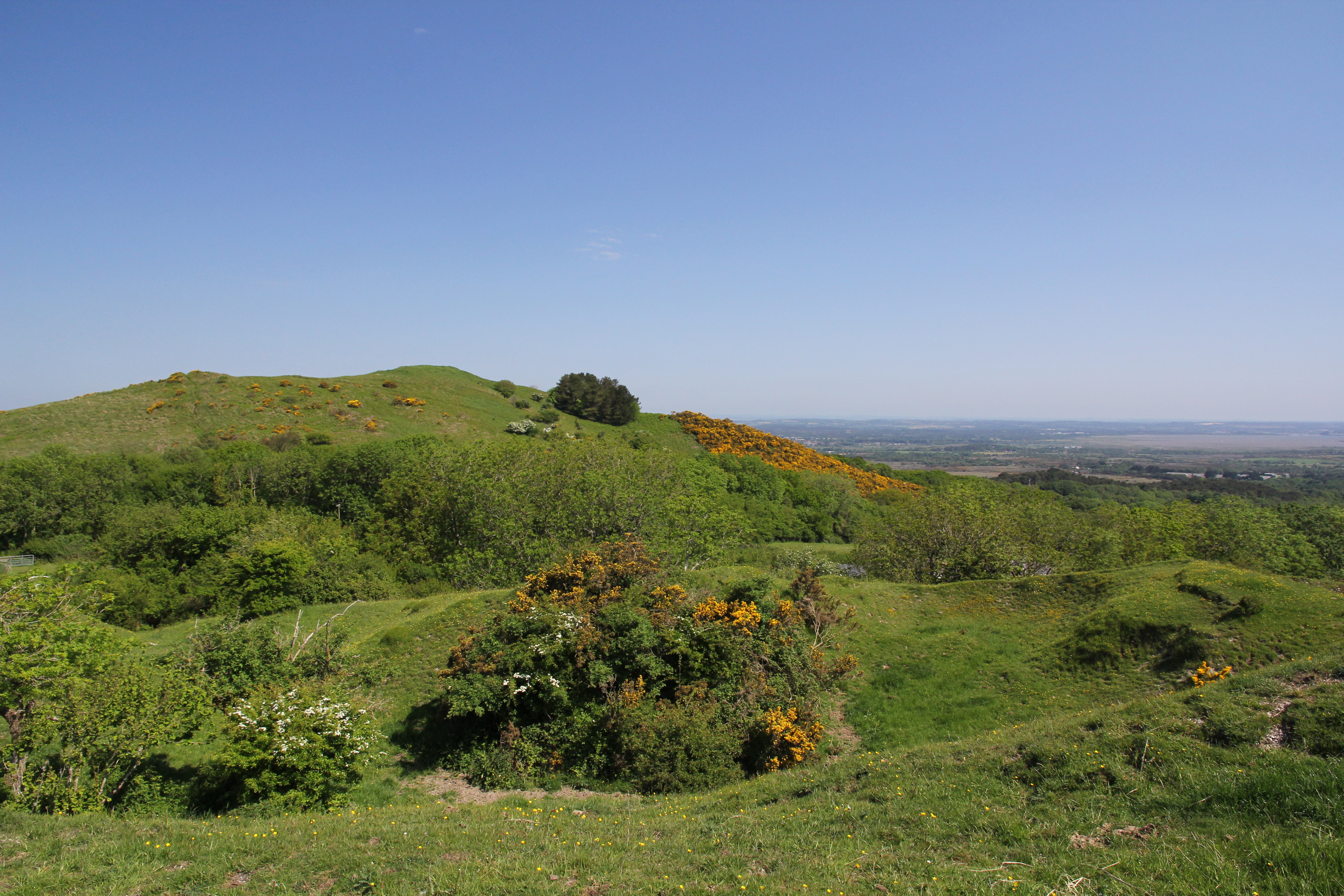 Summit of Creech Barrow Hill seen from the area of Stonehill Down to the south. Purbeck Hills, Dorset, England.